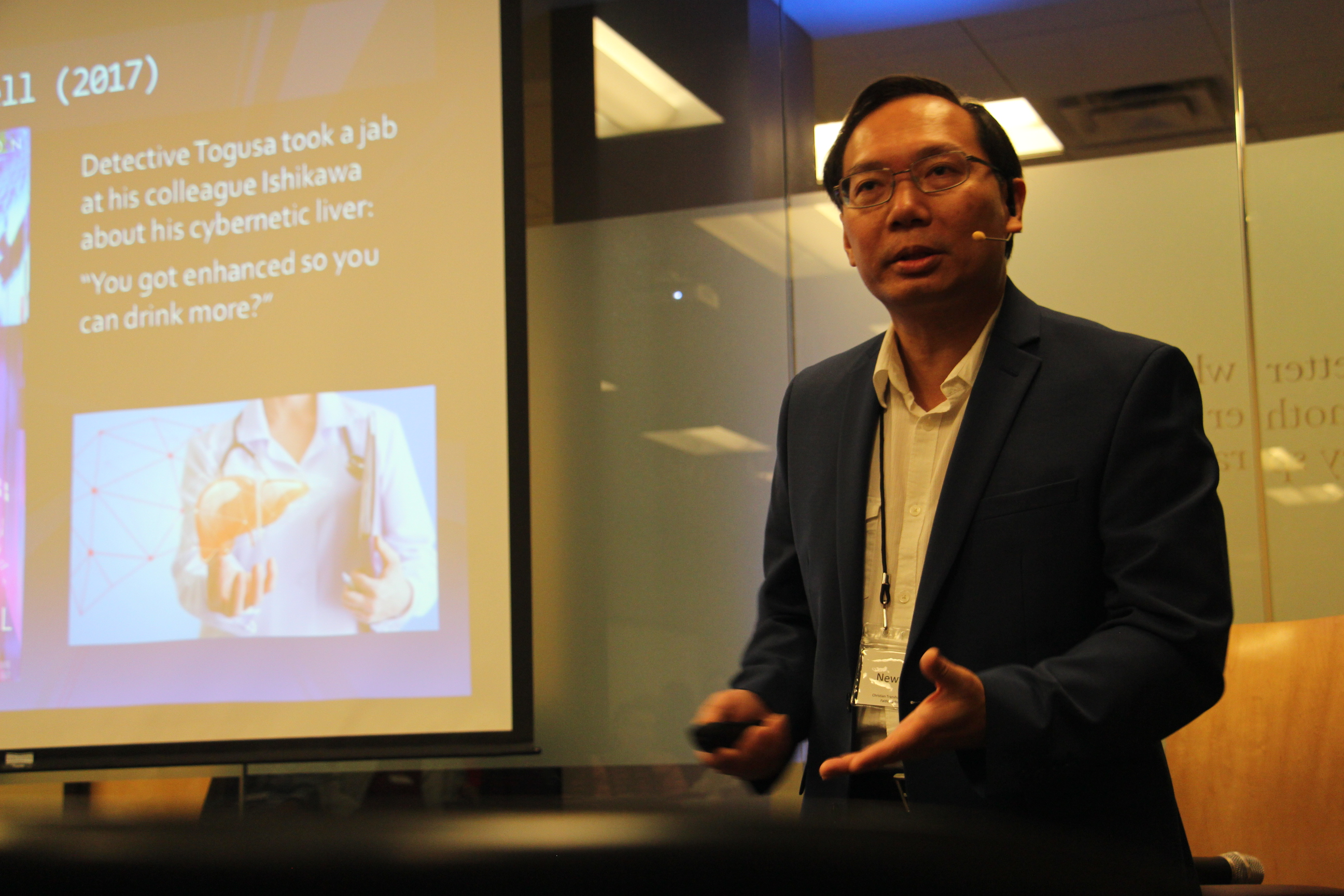 Newton Lee by Emily McFarlan Miller, Religion News Service, at 2018 Christian Transhumanist Conference in Nashville, Tennessee